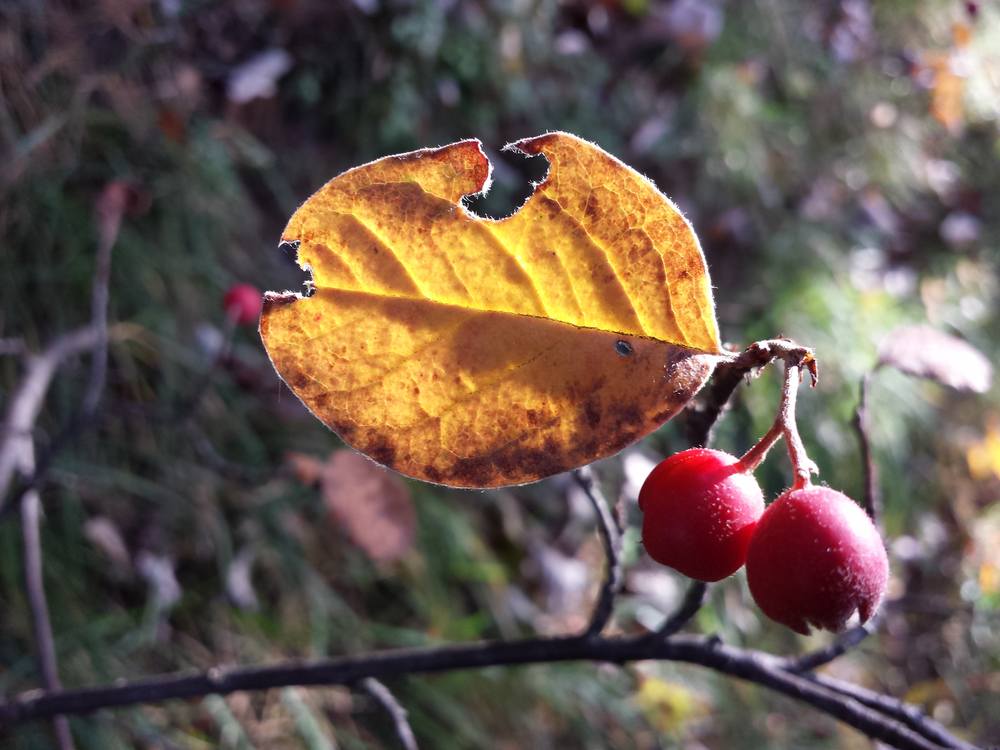 Fruits and leaf Taxon: Cotoneaster nebrodensis (sensu Fischer et al. EfÖLS 2008; det. M. A. Fischer 2013-10-19) Location: Anninger near Breite Föhre, district Mödling, Lower Austria - ca. 390 m a.s.l. Habitat: pine forest